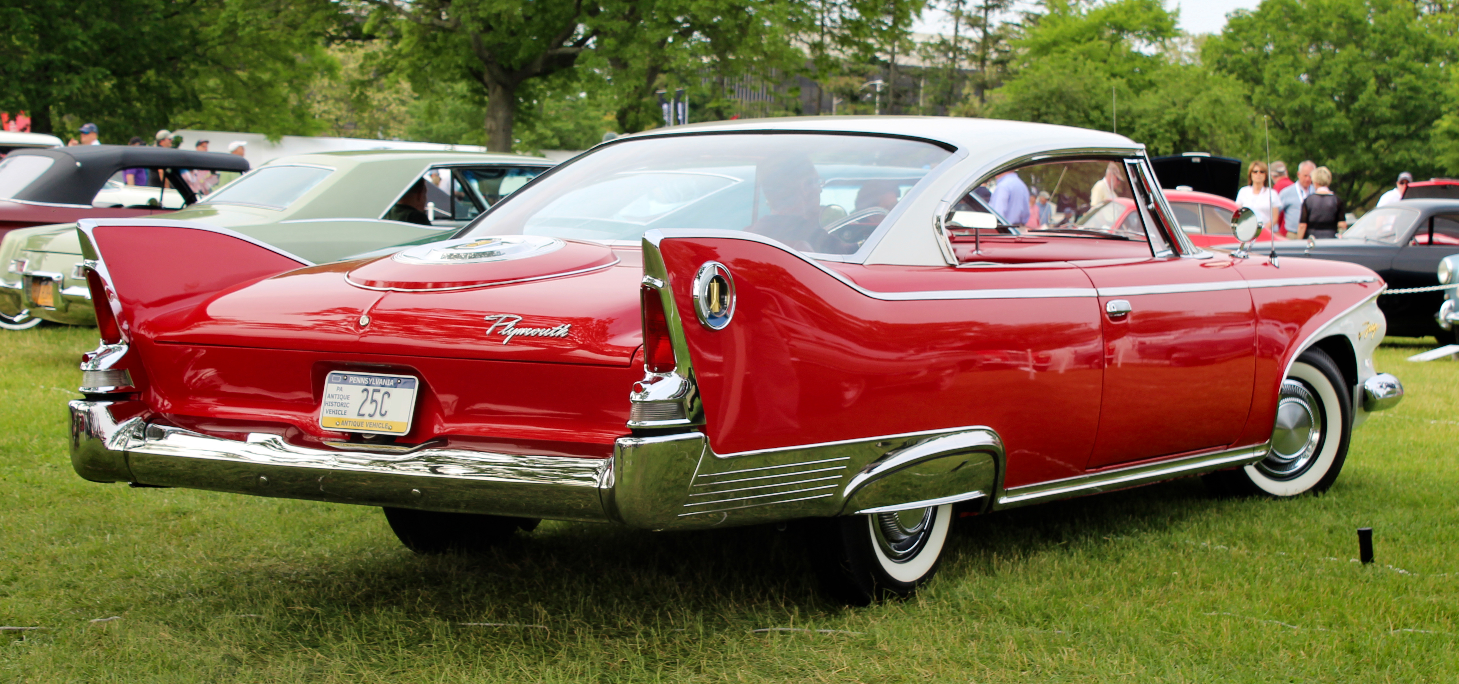 A 1960 Plymouth Fury photographed during the 2019 Greenwich Concours d'Elégance, Connecticut, USA